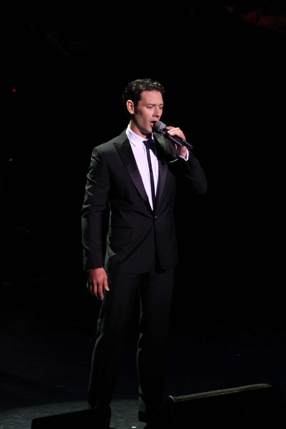 Il Divo Orchestra in Concert At Sydney Opera House Il Divo (divine male performer in Italian) performed at the world famous Sydney Opera House tonight - Valentine's Day in Australia. They are a multinational operatic pop vocal group created by music manager, executive, and reality TV star Simon Cowell. They are currently signed to Sony Music Entertainment. The group was originated in the UK, however most people believe they were formed in Italy. Il Divo is a group of four male singers: French pop singer Sébastien Izambard, Spanish baritone Carlos Marín, American tenor David Miller, and Swiss tenor Urs Bühler. To date, they have sold more than 26 million albums worldwide. Sebastien told the press: "We're so excited to be kicking off our 2012 tour in Australia. Valentines Day, performing at the Sydney Opera House is going to be such a memorable start to a world tour... it really feels like coming home. It’s a country full of my favourite things: Tim Tams, Whale Beach, shopping on Chapel Street and one of the best zoos in the world. We can't wait to have the time whilst on tour to enjoy it all!" Izambard, who married Melbourne publicist Renee back in 2008, also said he couldn't wait to spend time at the beach and have barbecues with his Australian relatives. "It always feels like coming home for me," he said. They have more than 25 million album sales globally, 150 gold and platinum discs and have more than 2 million concert tickets sold. The idea behind Il Divo's creation came to Cowell after hearing Andrea Bocelli singing Con te partirò while watching The Sopranos. They combine amazing voices, class and great looks. The group is expected to continue to draw strong audience numbers while touring Australia. Websites Il Divo Sydney Opera House Live Nation Flourish PR Eva Rinaldi Photography Flickr Eva Rinaldi Photography Music News Australia